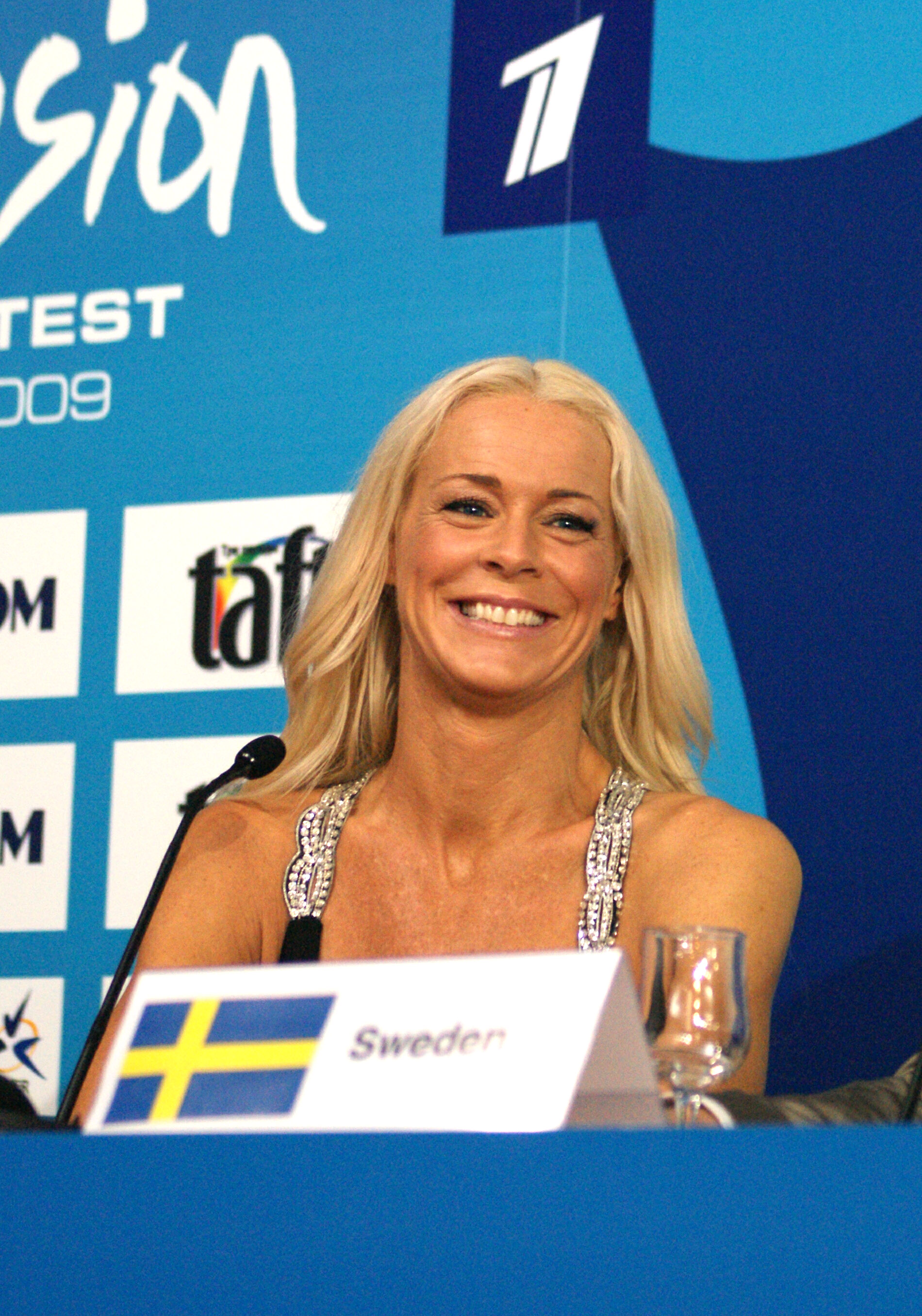 Malena Ernman